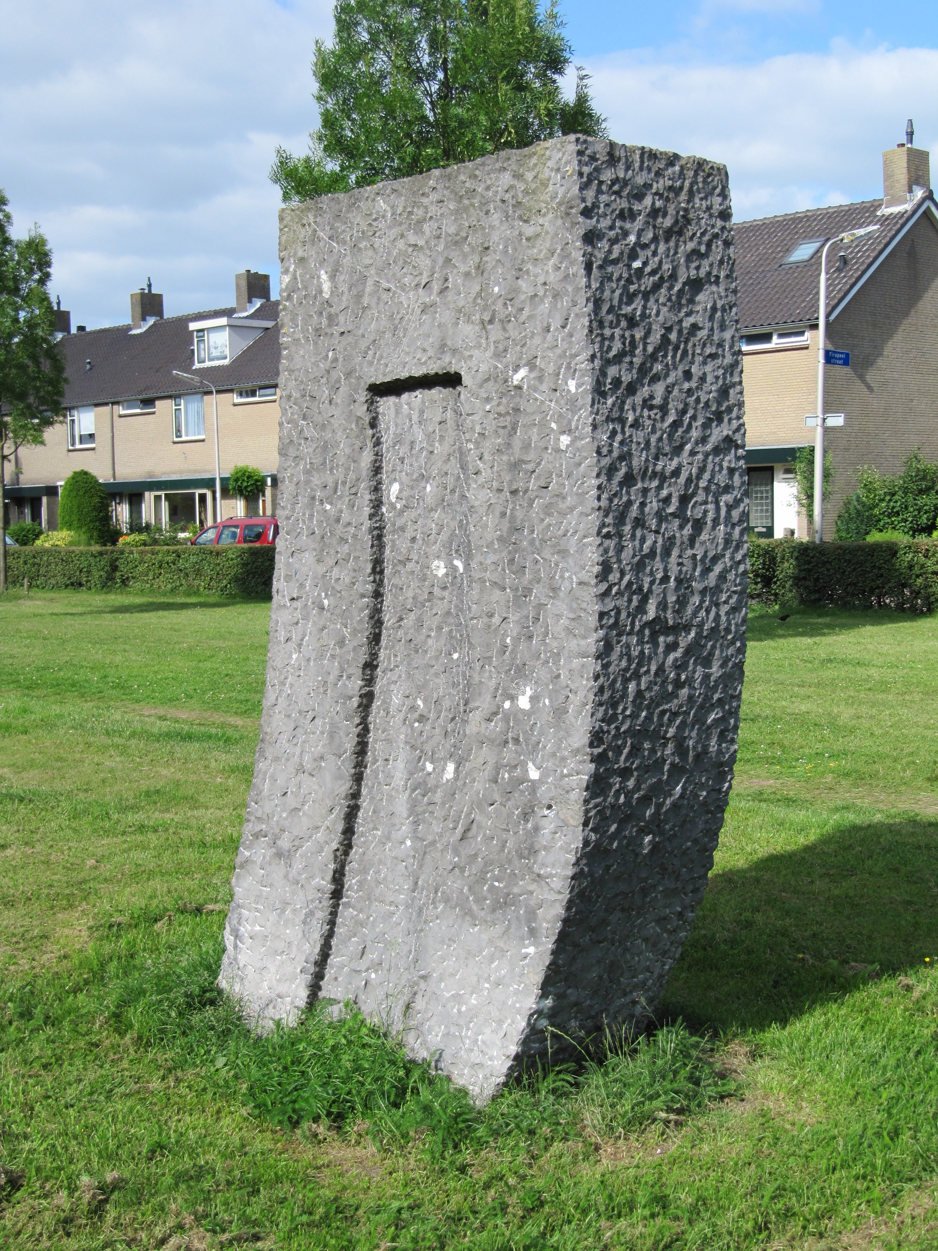 Stone sculpture untitled, probably by Gerard van Rooy, in the park next to the Holkerweg in Amersfoort, The Netherlands